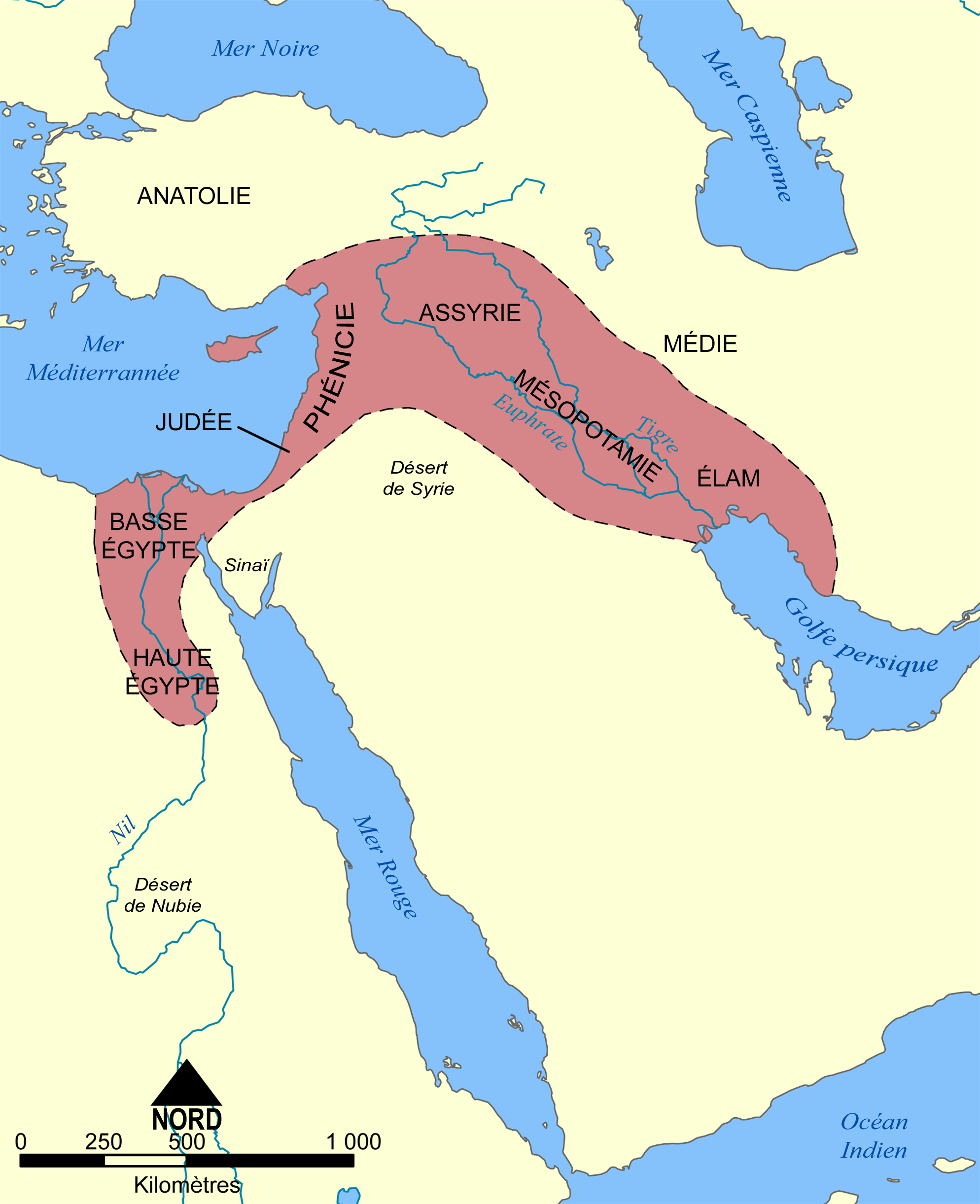 Map in French of the Fertile Crescent, a region in the Middle East incorporating Ancient Egypt; the Levant; and Mesopotamia.